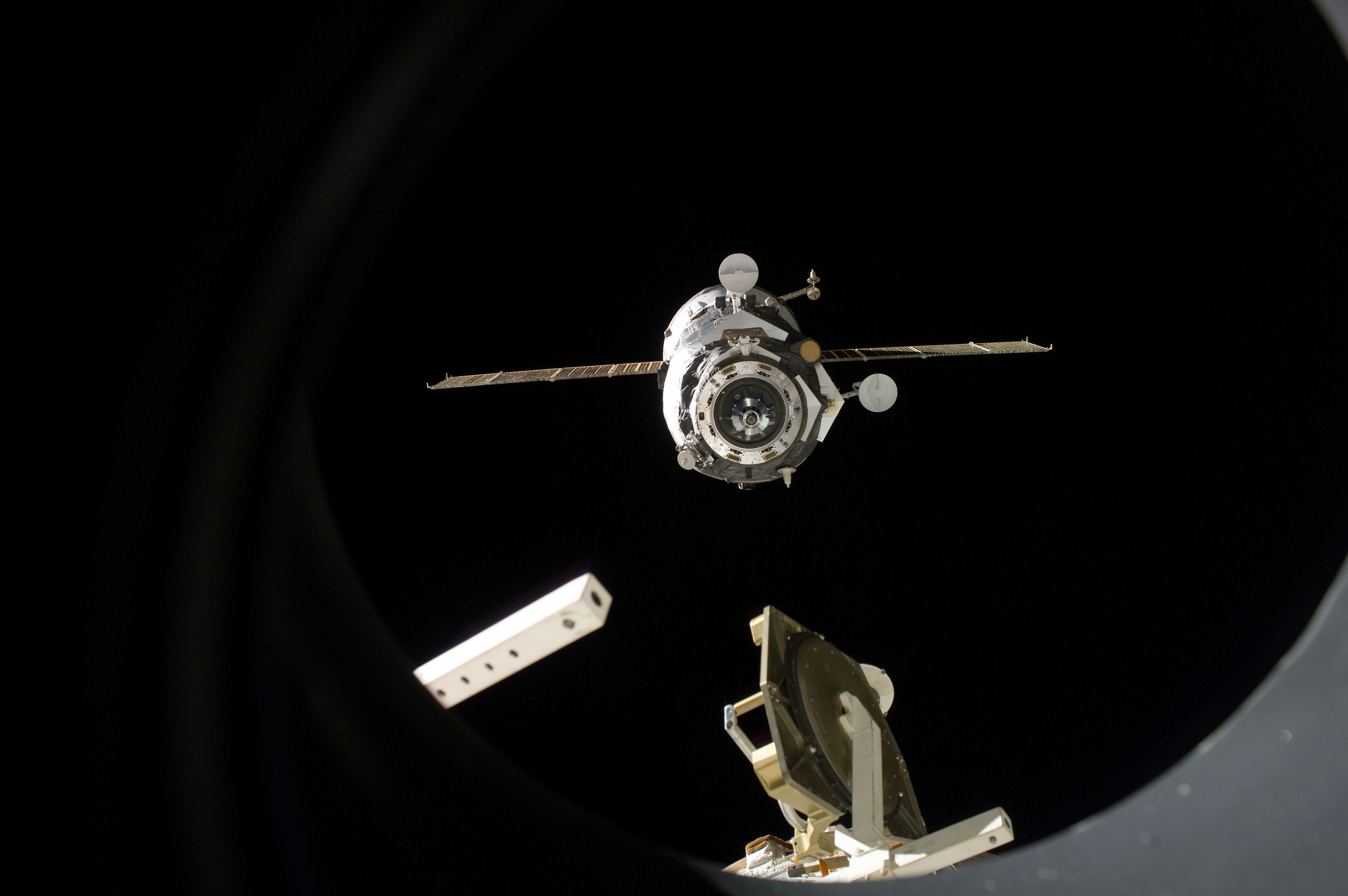 The unpiloted ISS Progress 41 supply vehicle departs from the International Space Station at 7:41 a.m. (EDT) on April 22, 2011. Filled with trash and discarded items, Progress 41 will remain in orbit a safe distance from the station for engineering tests before being commanded by flight controllers to descend to a destructive re-entry into Earth's atmosphere over the Pacific Ocean. The departure of Progress 41 clears the way for the next unpiloted supply ship, ISS Progress 42, which is set to launch April 27 from the Baikonur Cosmodrome in Kazakhstan, delivering three tons of food, fuel and supplies for the Expedition 27 crew.